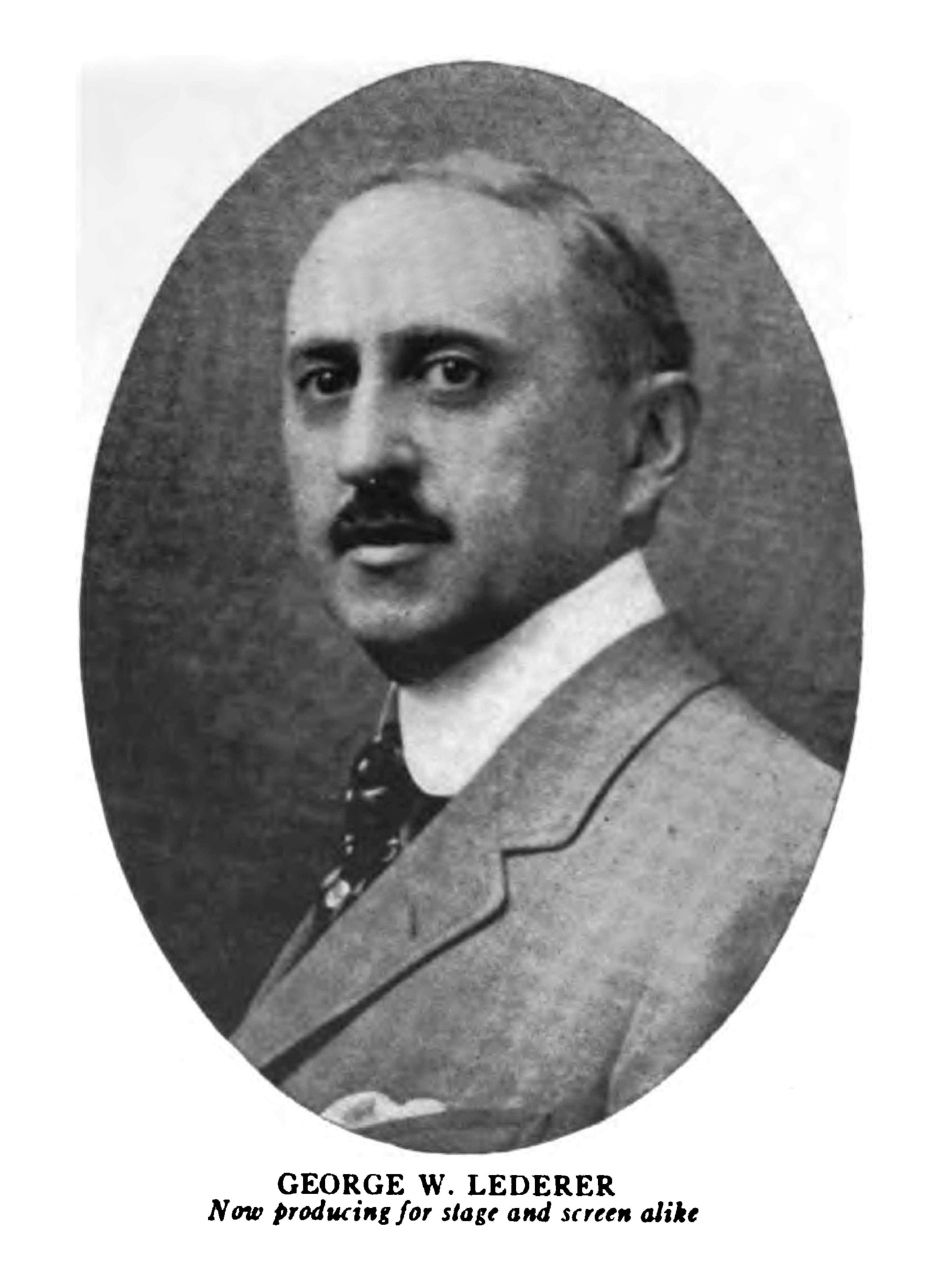 George W. Lederer (c. 1862, Wilkes-Barre, Pennsylvania - October 8, 1938) was an American producer and director